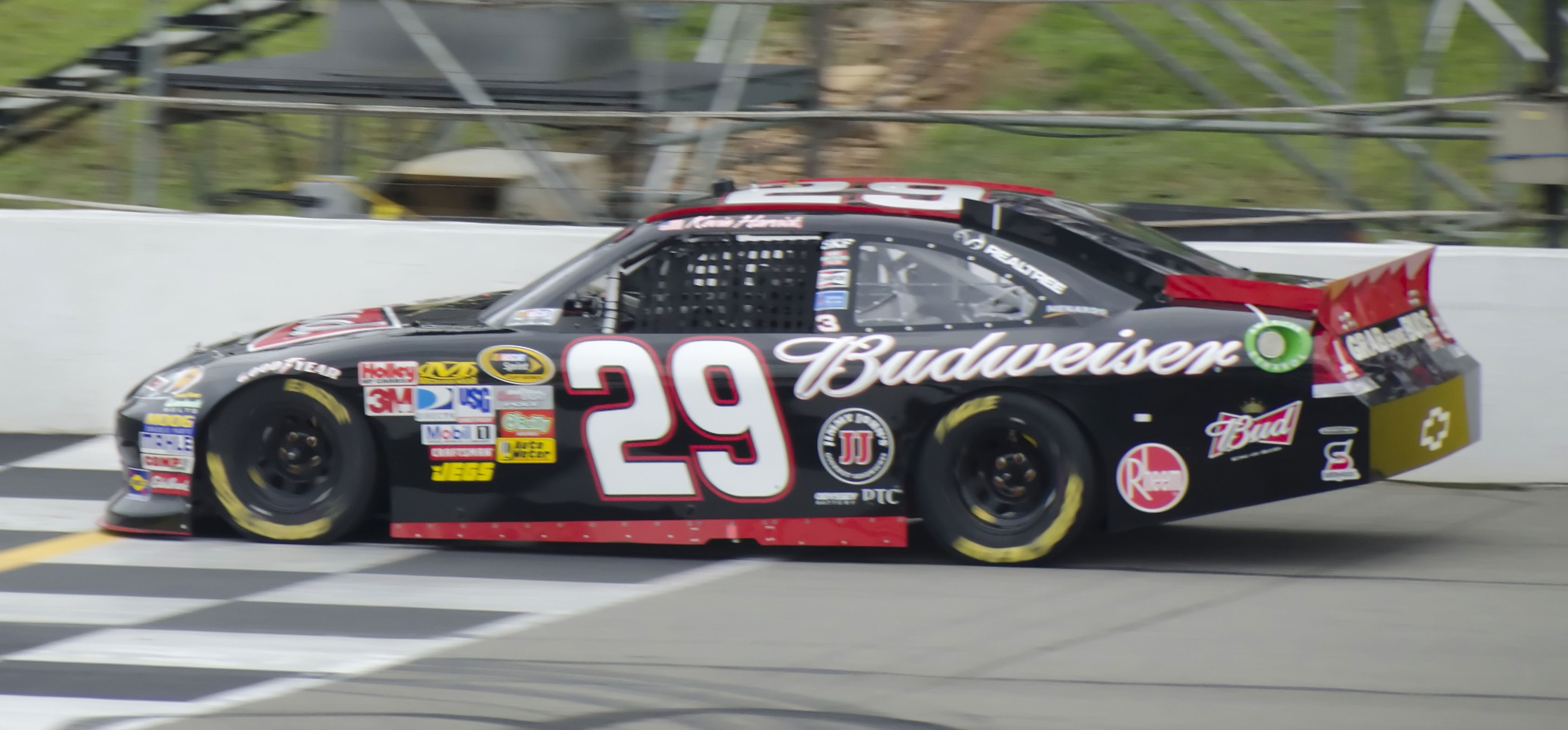 Kevin Harvick's No. 29 Budweiser Chevrolet at Pocono Raceway in 2011